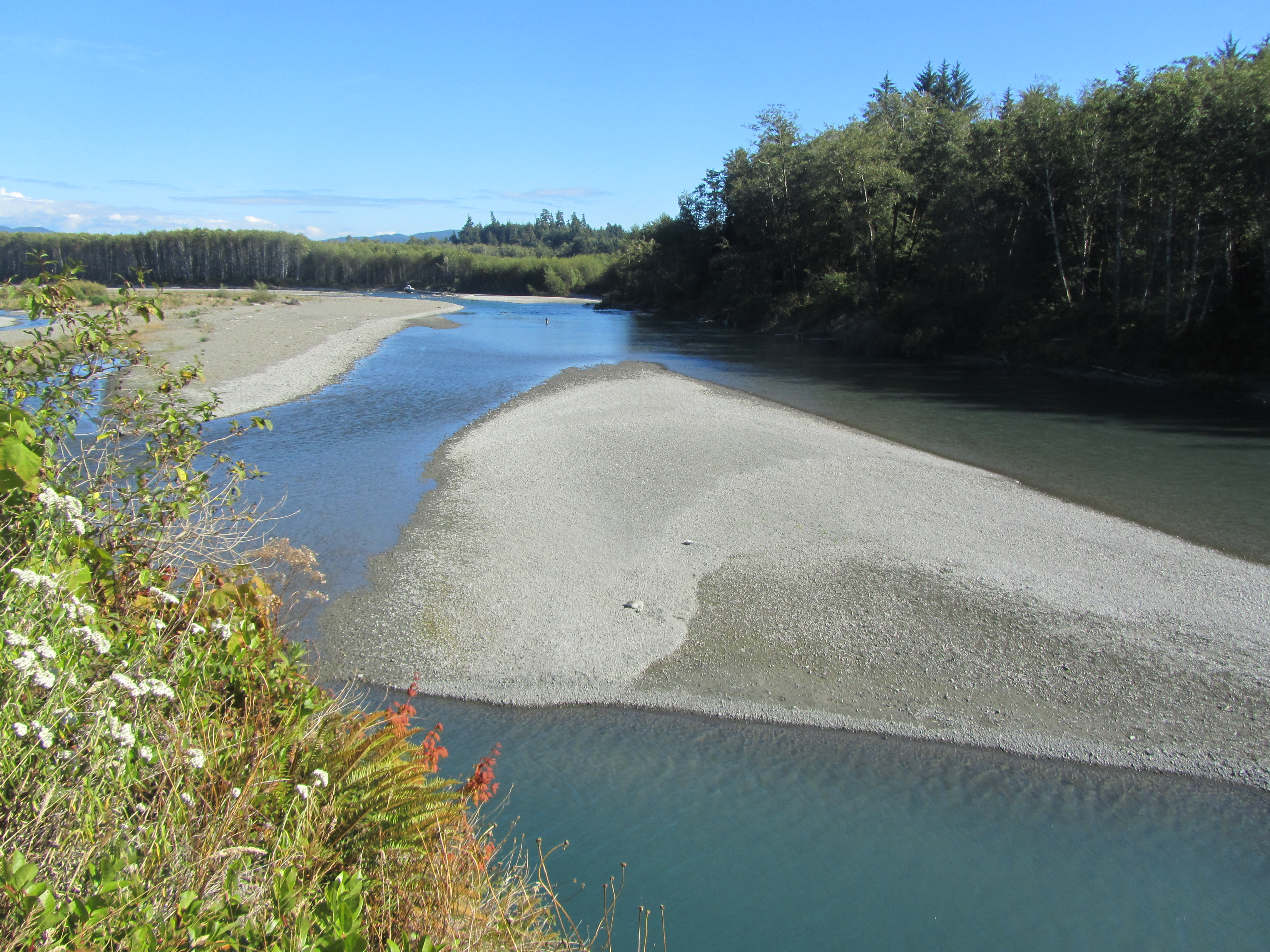 A view of the Hoh River taken near the mouth of the river in late Summer.